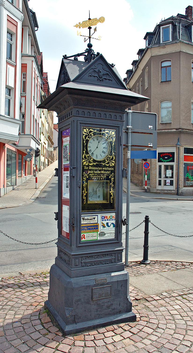 This image shows the advertising clock in Werdau.